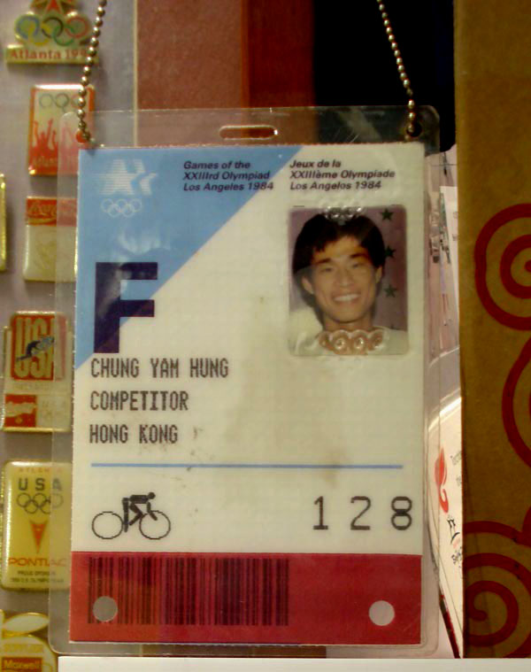 Olympic Identity and Accreditation Card of 1984 Olympic Game, belonged to Hung Chung-yam, cycling athletic of Hong Kong